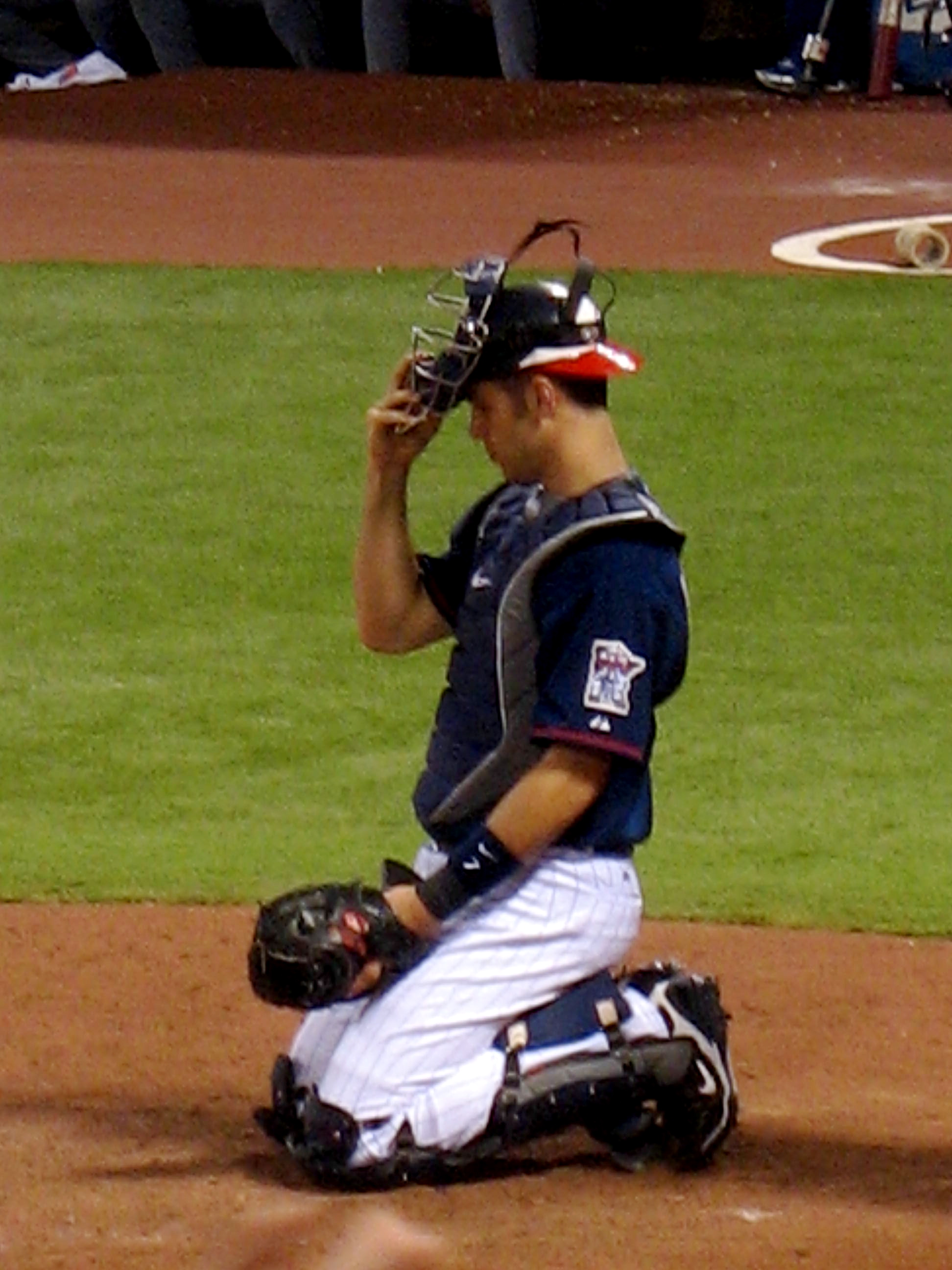 Joe Mauer catching at the Metrodome